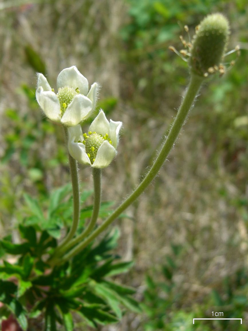 Anemone cylindrica Gray 20090622 (photo #21) Peace River, Alberta